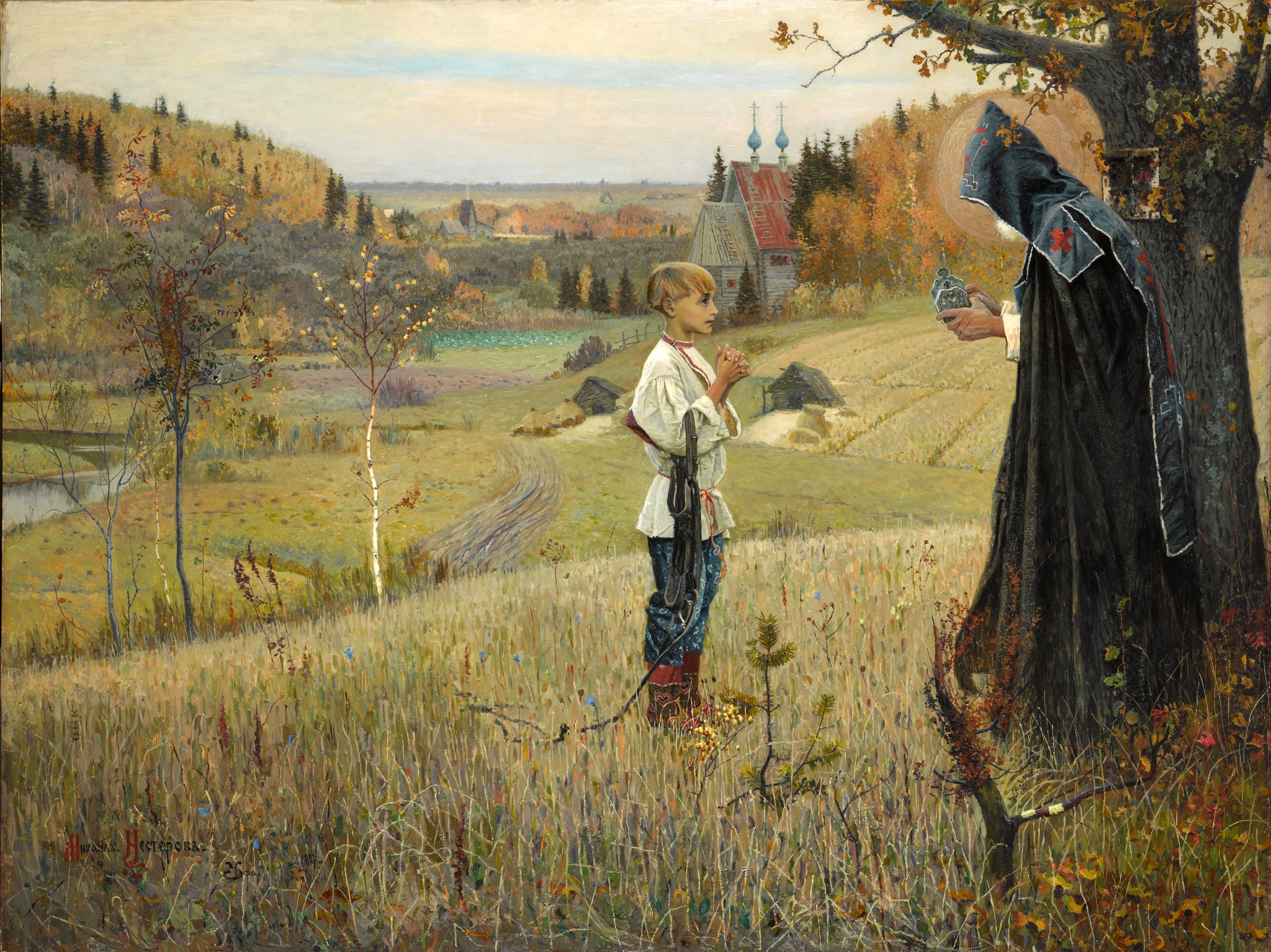 one of a series of works depicting the acts of the Venerable St Sergius of Radonezh (c.1321-91), baptised Bartholomew or Varfolomei, shown here encountering a monk who helps him learn to read by sharing a piece of holy bread